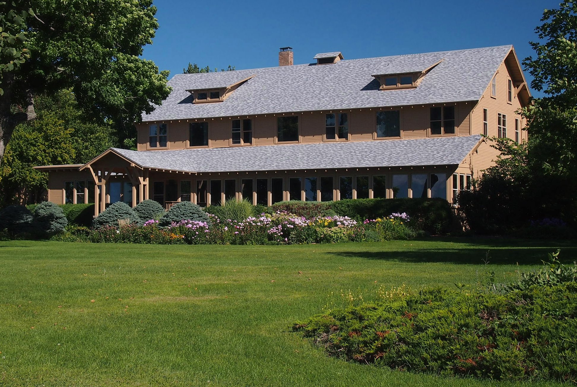 Main lodge of Sunset Beach Hotel, Glenwood Township, Minnesota, USA. Viewed from the west.